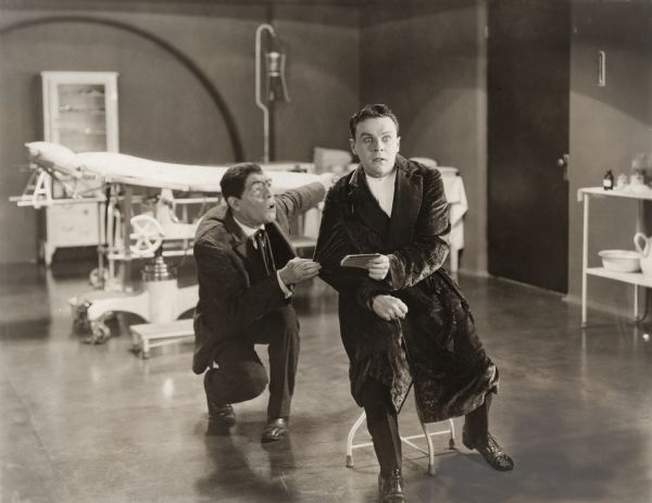 In a medical operating room, Robert Sandell (played by Raymond McKee) is shocked by what he has read in the notepad that the Hunchback (Lon Chaney) has given him in a scene still for the 1922 silent horror film "A Blind Bargain."